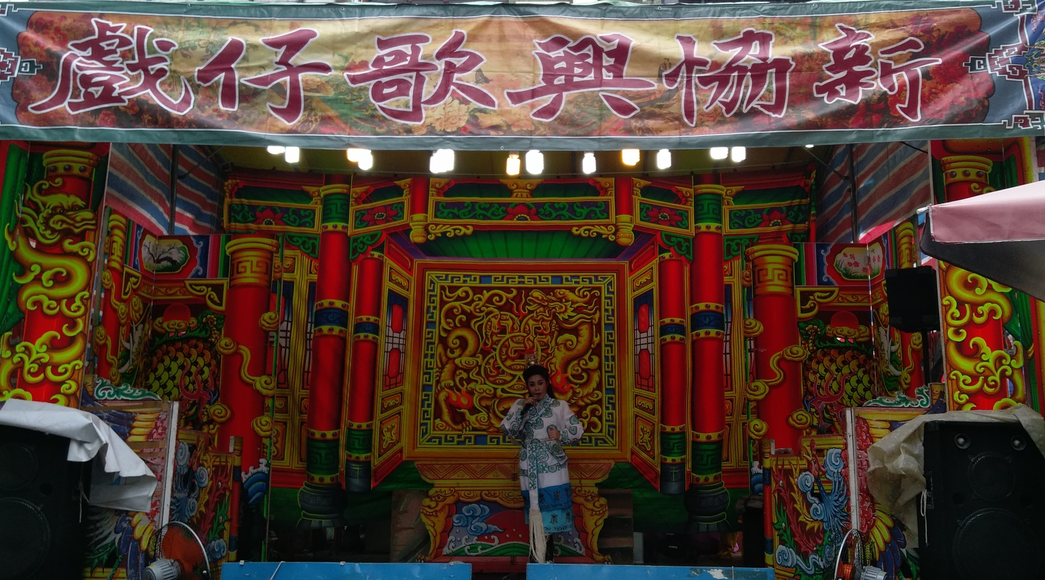 Taiwanese Ke-Tse opera Bân-lâm-gú: Tâi-uân kua-á-hì（臺灣歌仔戲）。